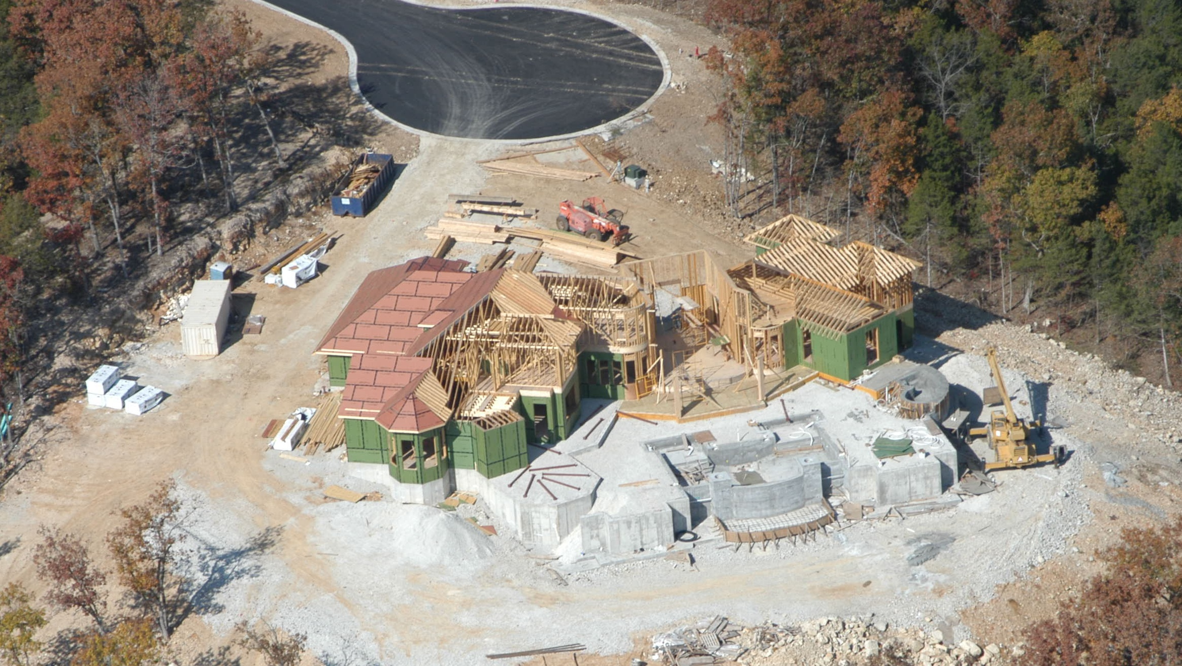 AP of Large Residence under construction for use in an appraisal article